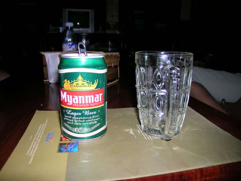 A can of Myanmar Lager Beer bought in Cambodia